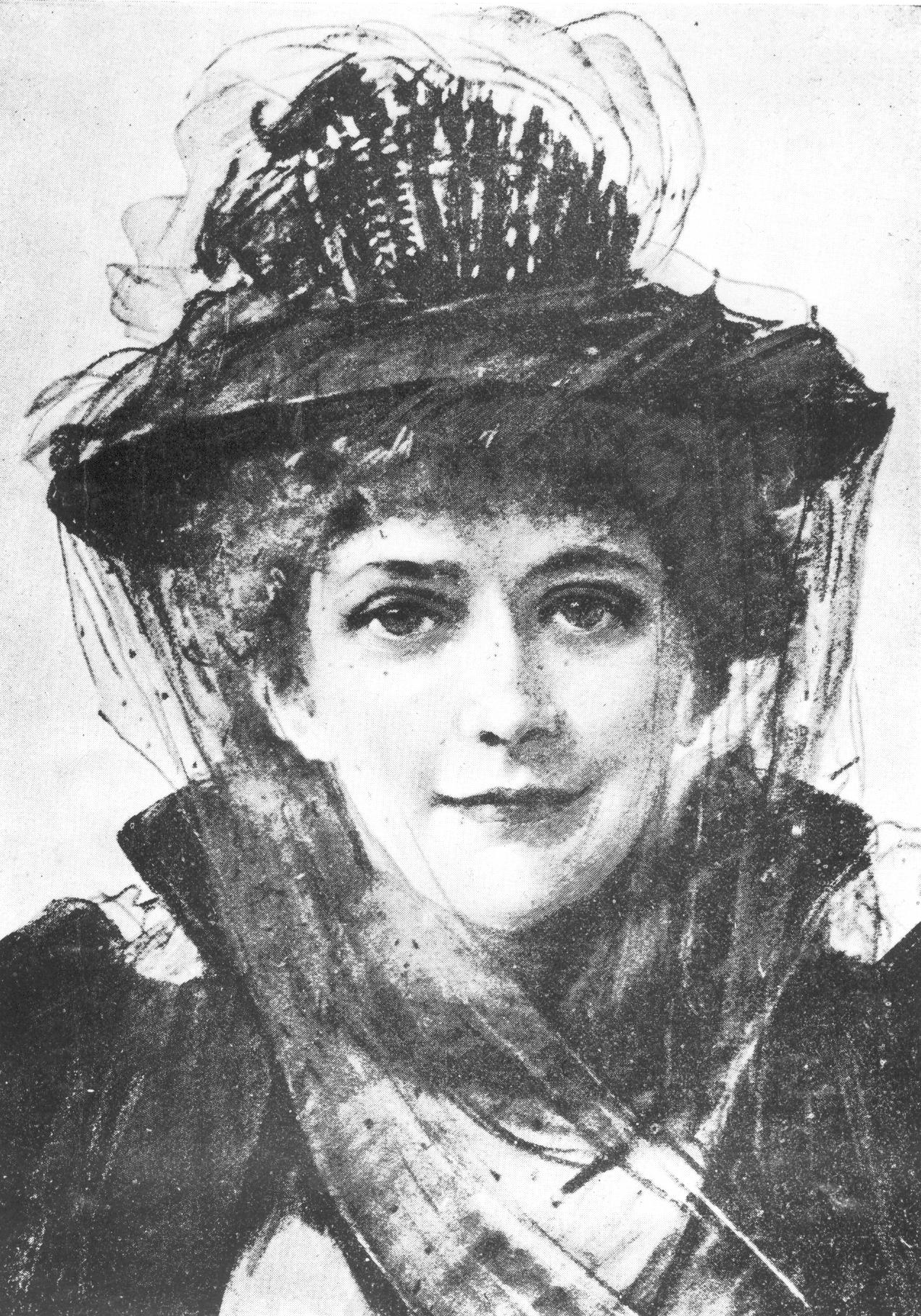 Miss Mabel Collins, 1888